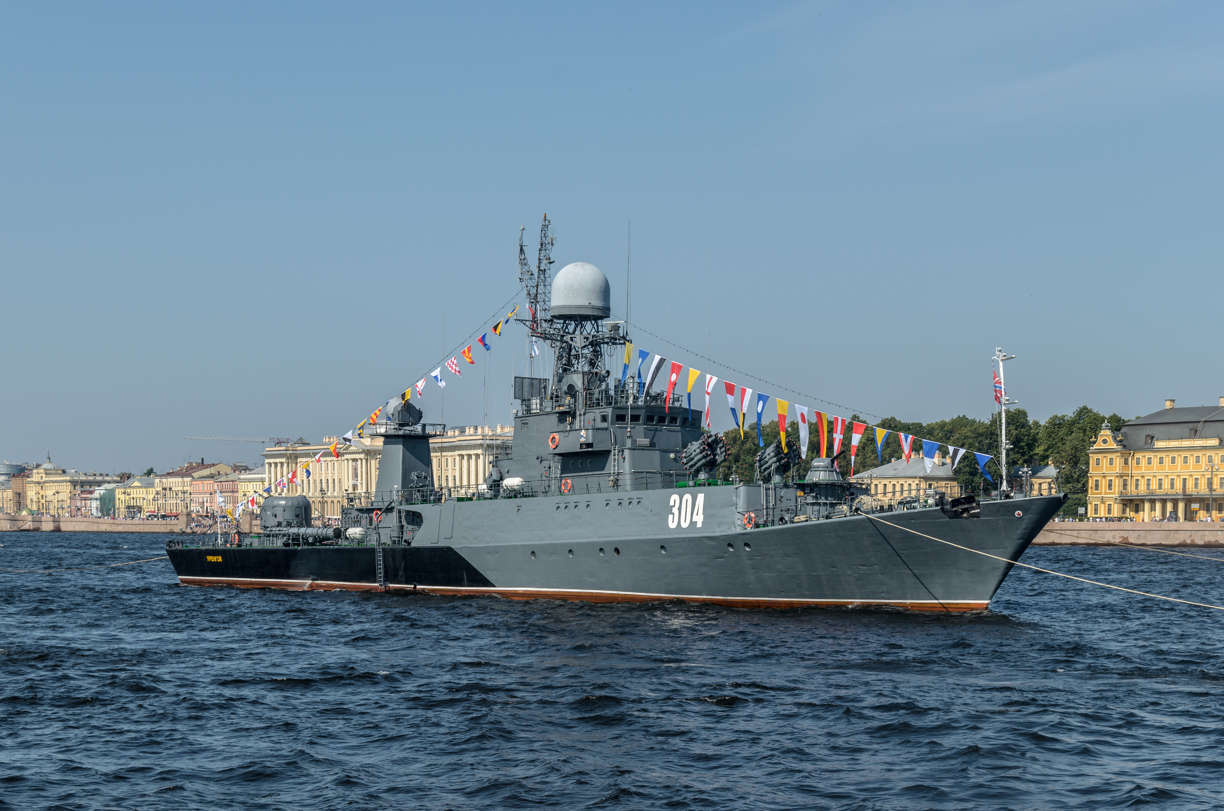 Parchim-class Corvette MPK-192 Urengoy in Saint Petersburg